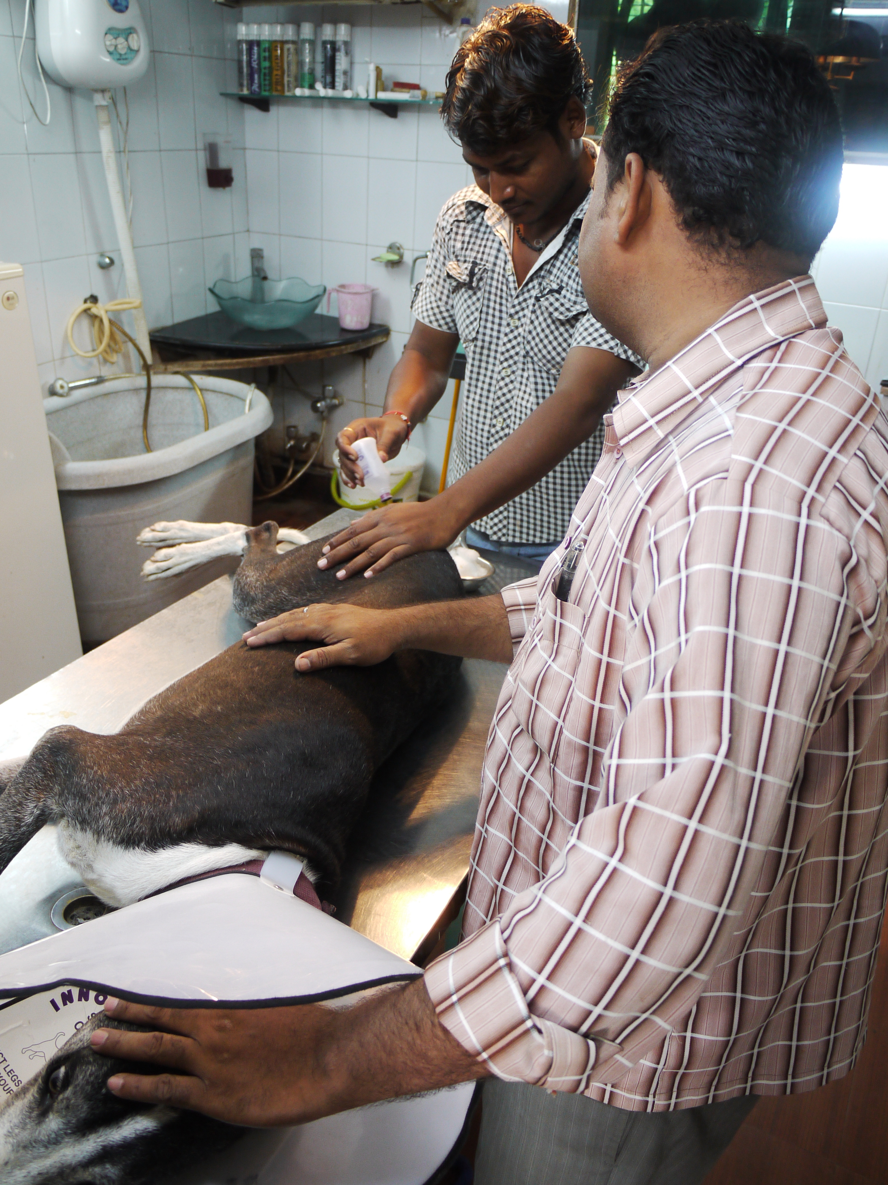 Mustana at the vet